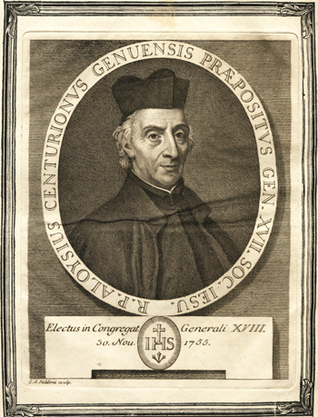 Aloysius Centurione, S.J.